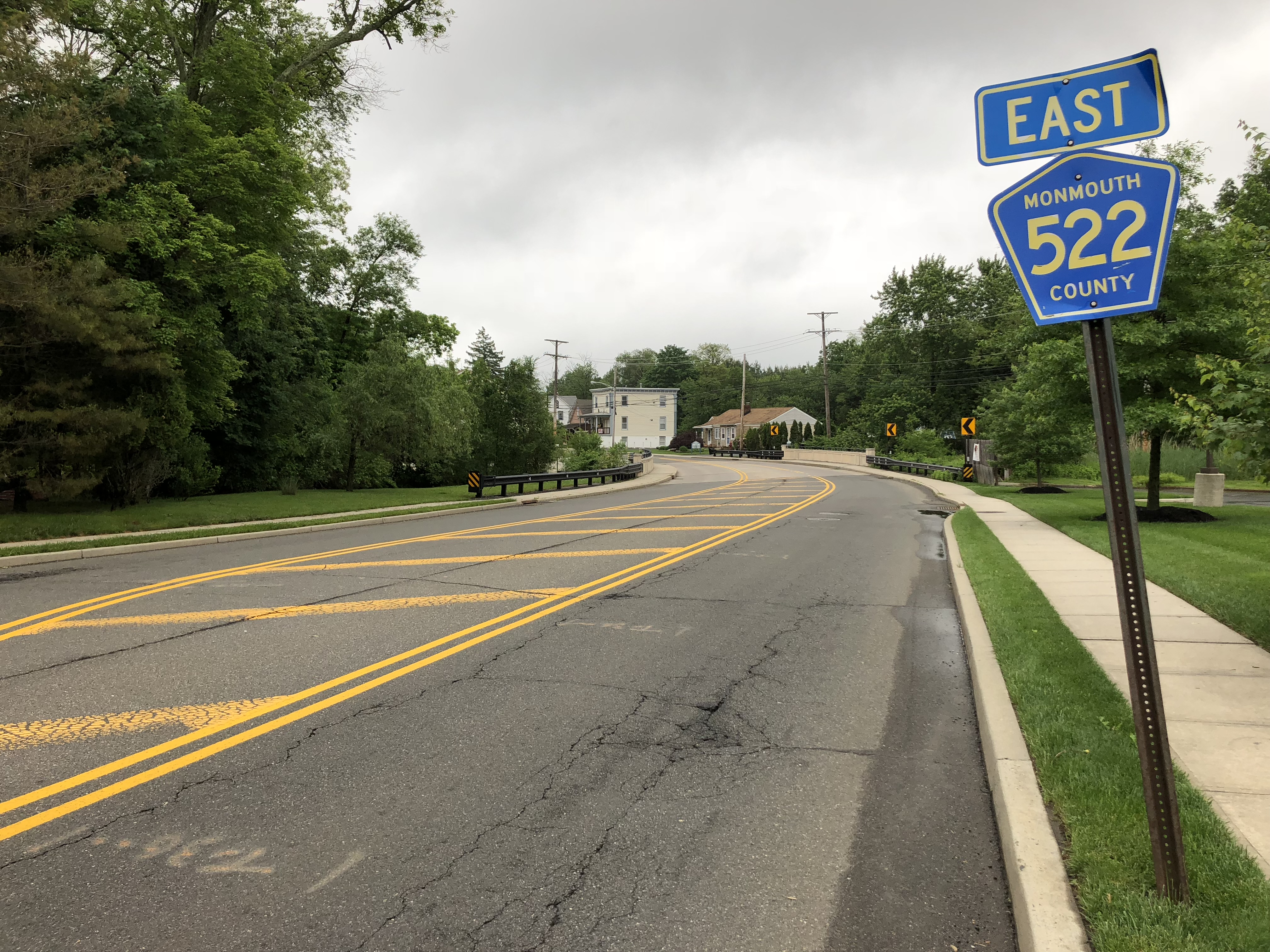 View east along Monmouth County Route 522 (Wood Avenue) at Lasatta Avenue/Harmony Lane in Englishtown, Monmouth County, New Jersey